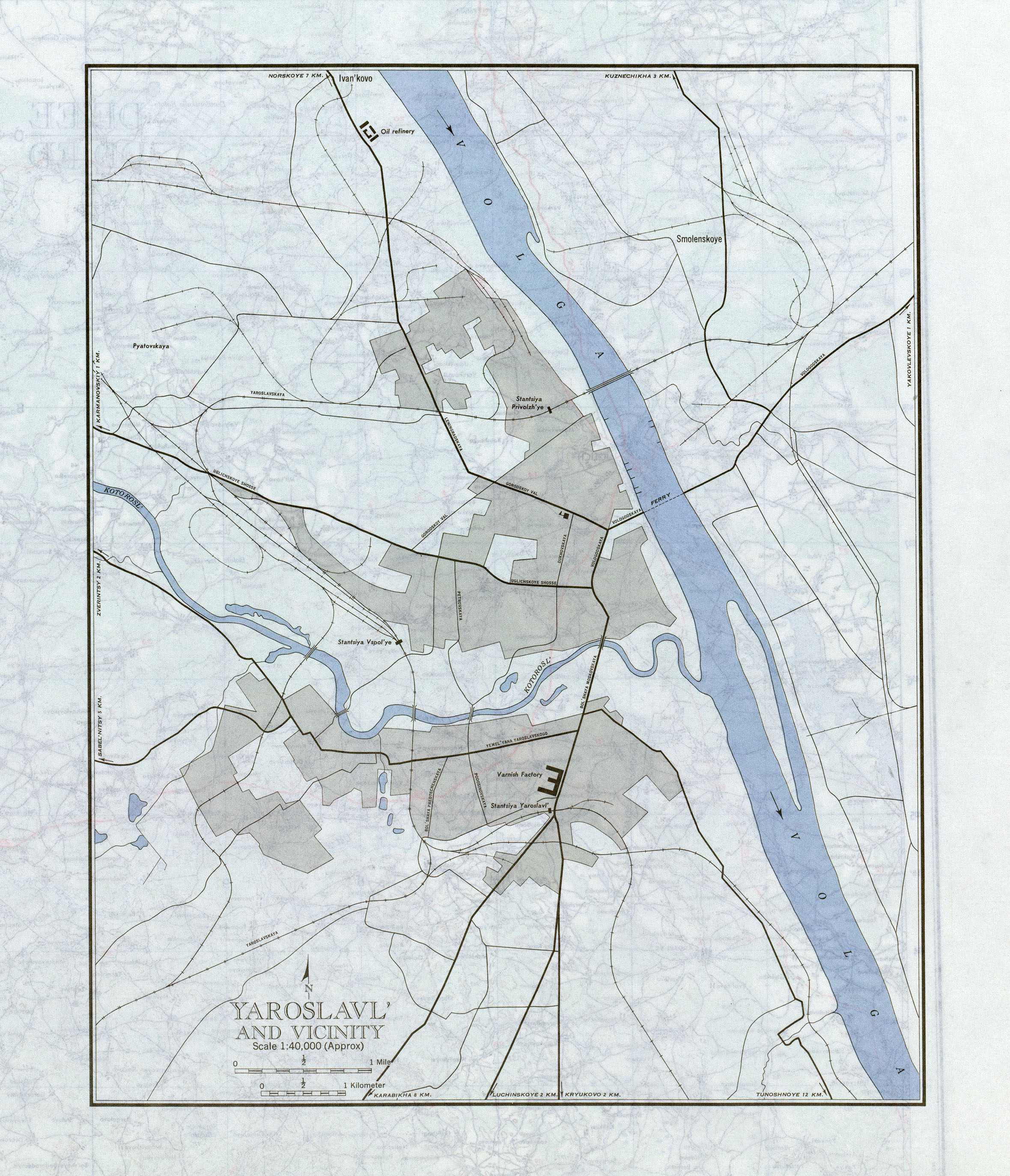 List from Eastern Europe AMS Topographic Maps. Series N501, U.S. Army Map Service, 1954